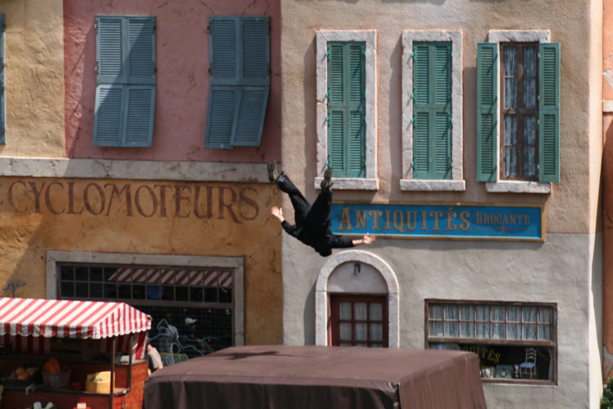 Stunt man at Lights, Motors, Action! Extreme Stunt Show, Disney's Hollywood Studios